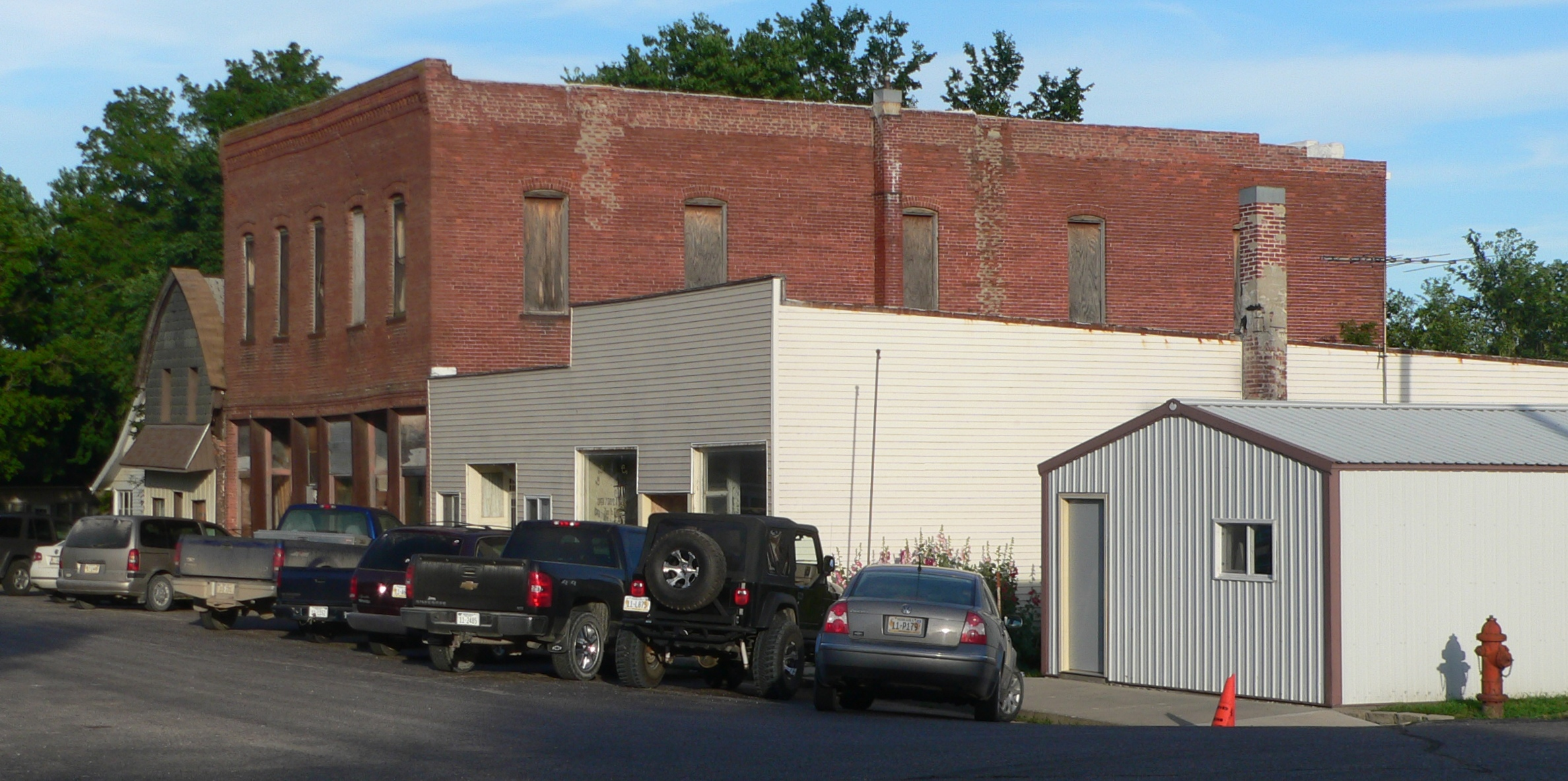 Downtown Lorton, Nebraska: south side of Cypress Street, looking southeast from about First Street.